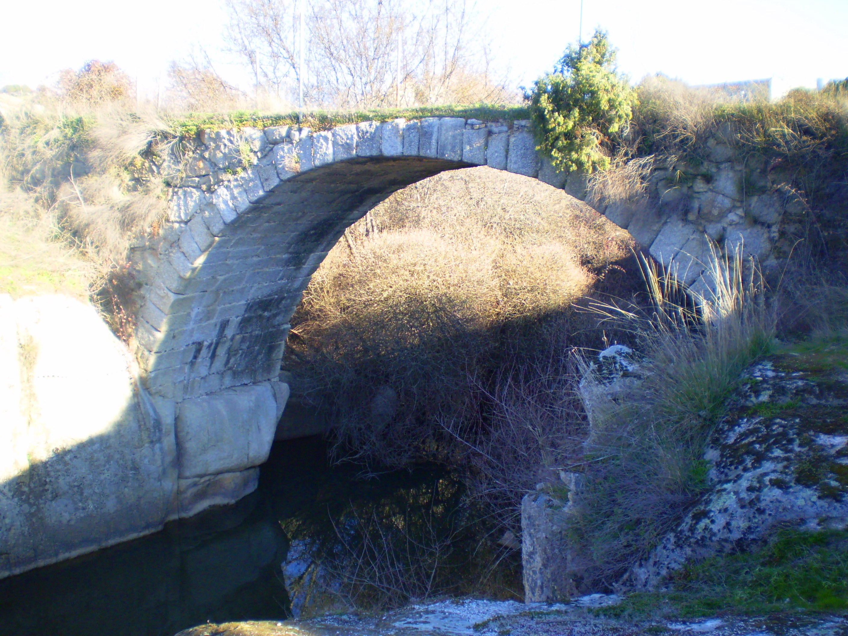 Batán Bridge over Manzanares River. Colmenar Viejo. Community of Madrid, Spain